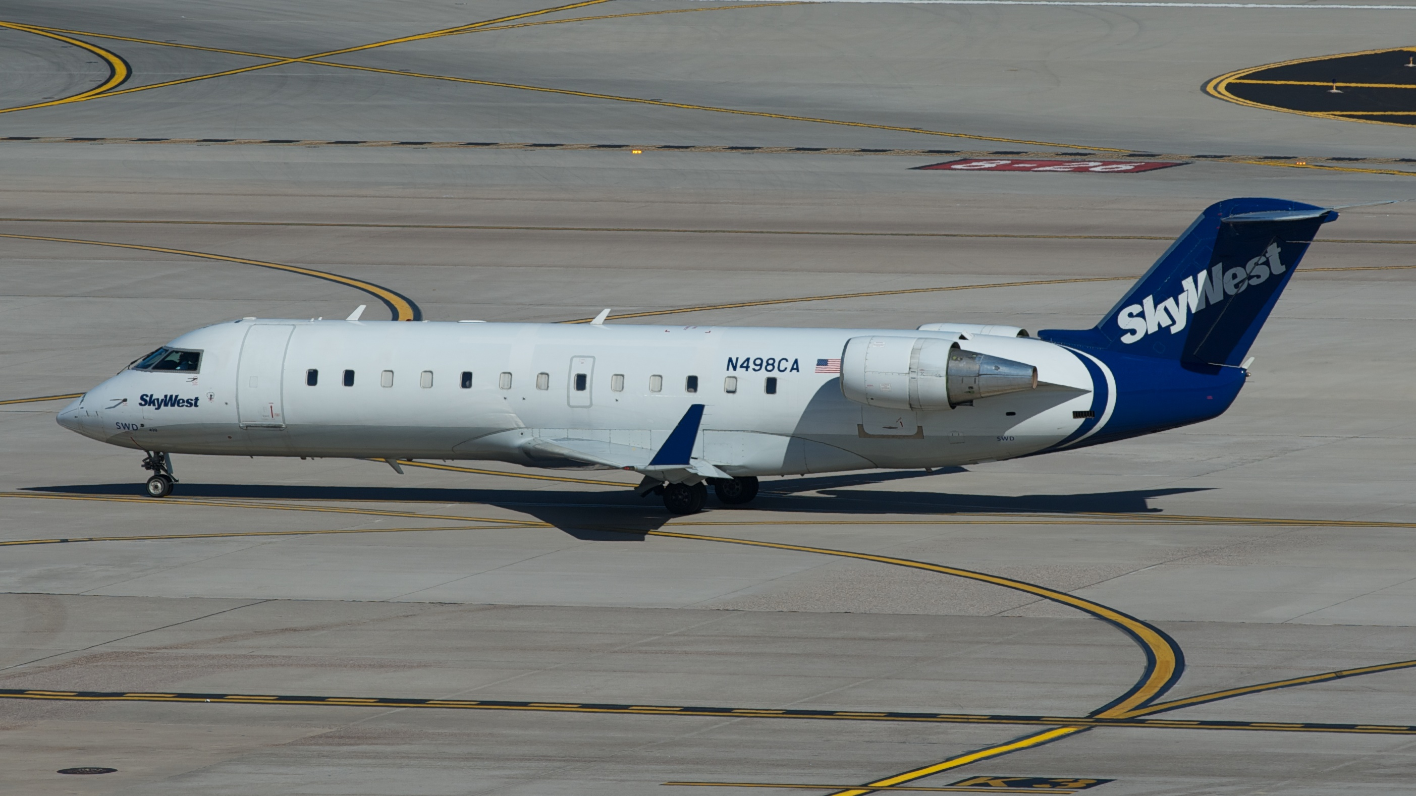 Rare to see a regional in house colous. Used as a spare aircraft across airlines. Taxing at PHX